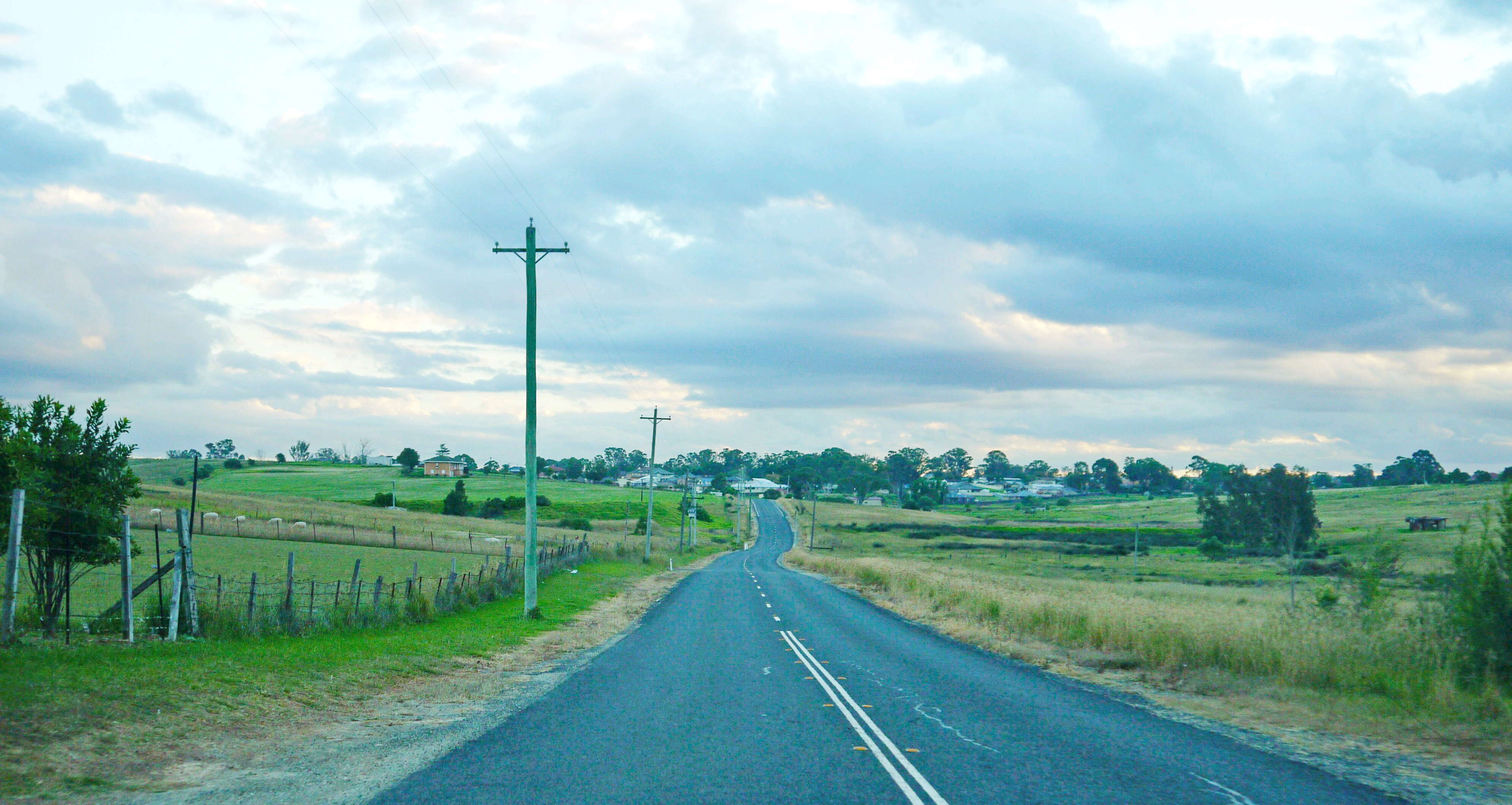 Adams Road, looking east toward Luddenham township